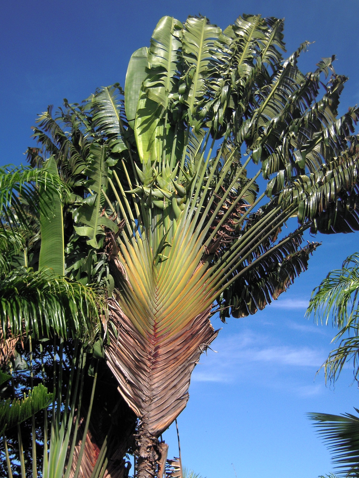 Species from Madagascar Photographed at the Garden of Eden Botanical Garden, Maui